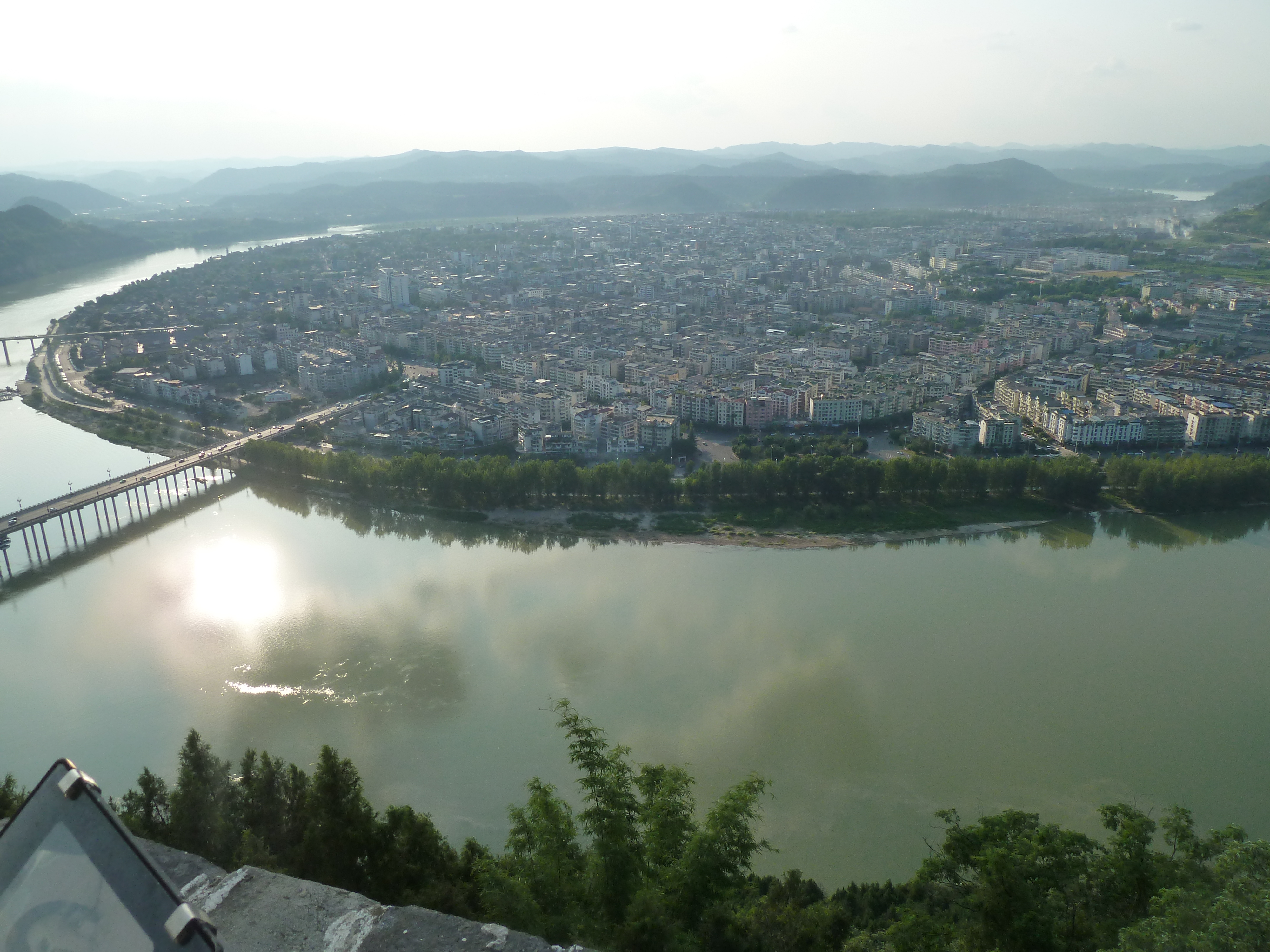 View of Langzhong City from near the White Pagoda in Dongshan Forest Park.